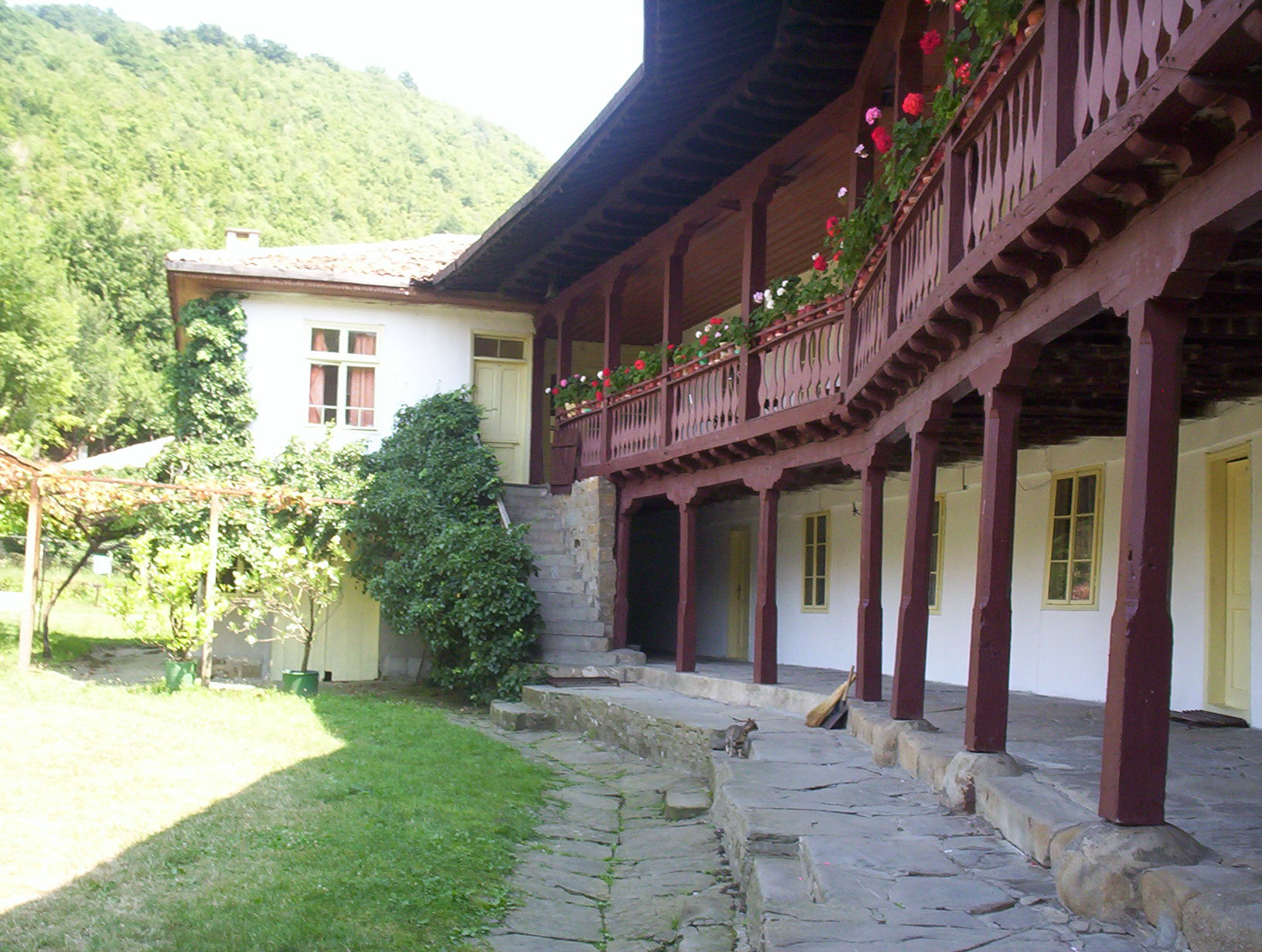 Monartery of Kilifarevo